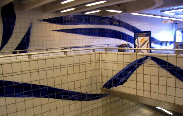 Arènes, metro station of Toulouse.